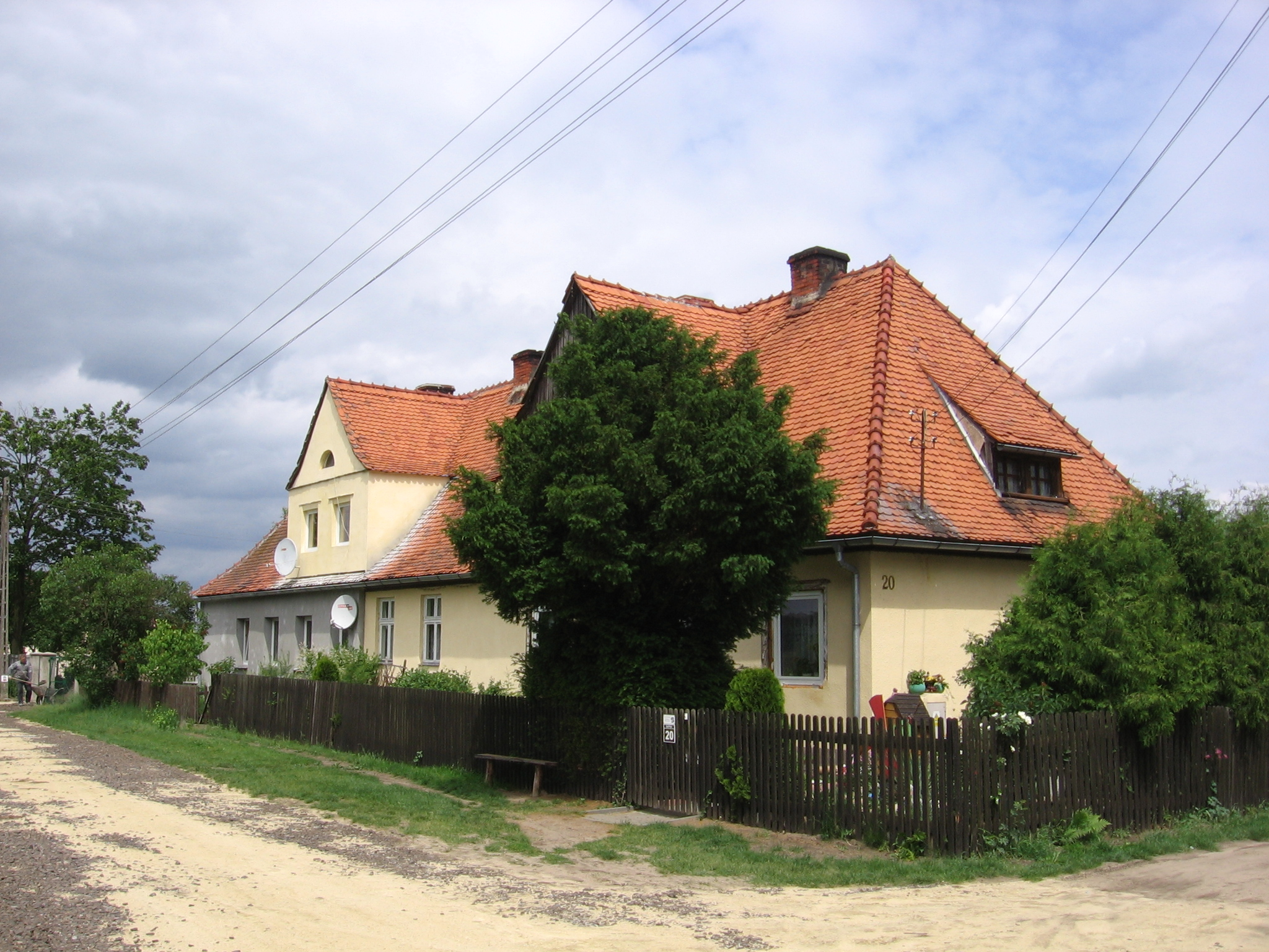 Former (1920-1939) German Border Guard (Grenzschutz) building near former German-Polish border in the village Gatka (ca. 55 km north of center of city Wrocław).